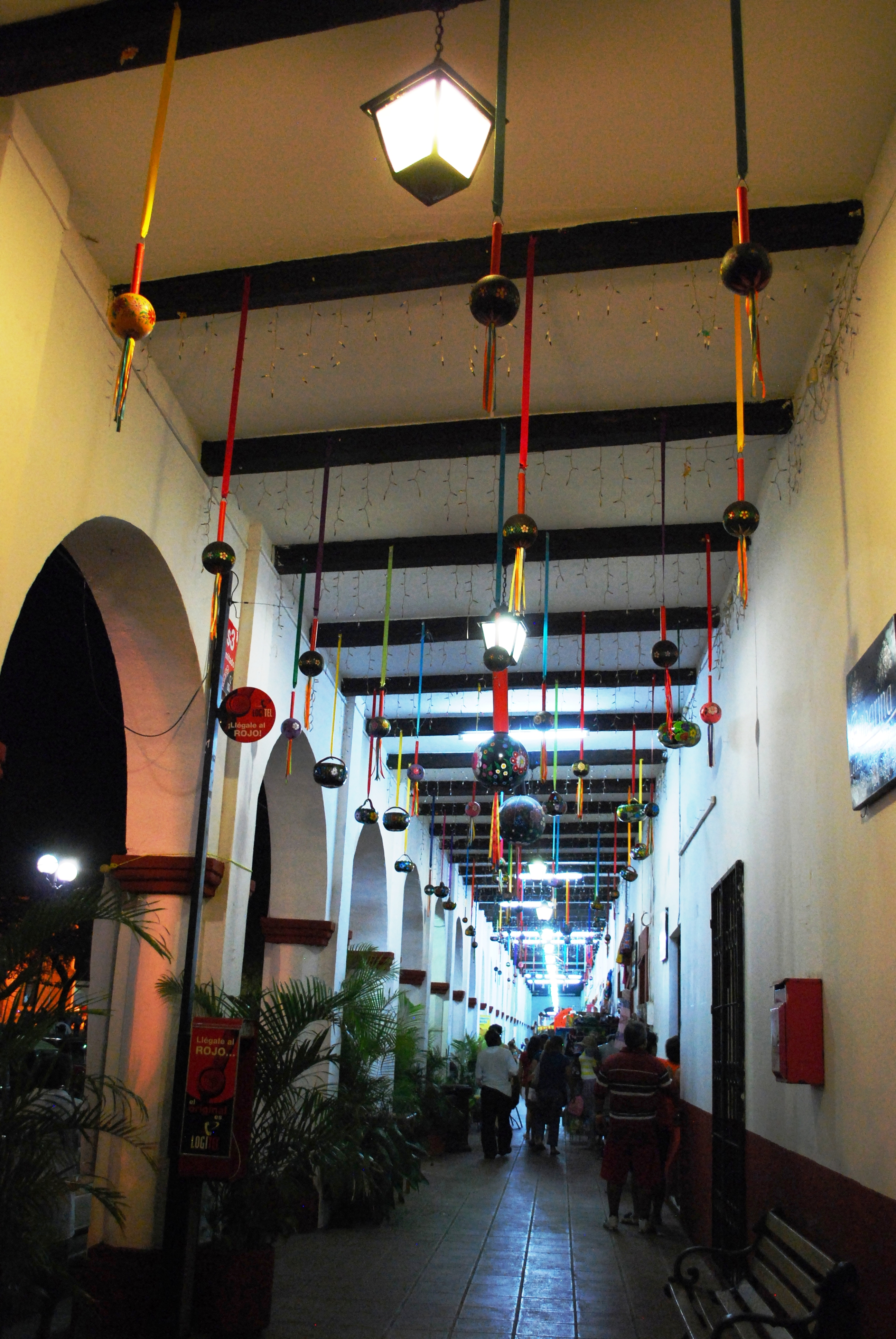 Portion of the Portales with decorations hanging from the ceiling, in Chiapa de Corzo, Chiapas, Mexico